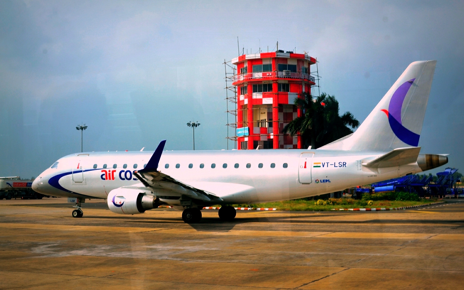 Air Costa aircraft at Chennai Airport